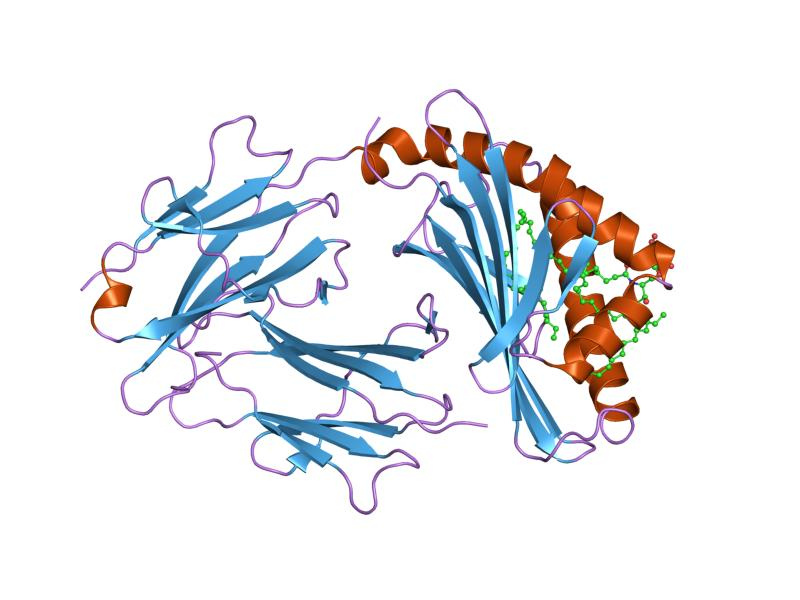 Cartoon representation of the molecular structure of protein registered with 1gzp code.